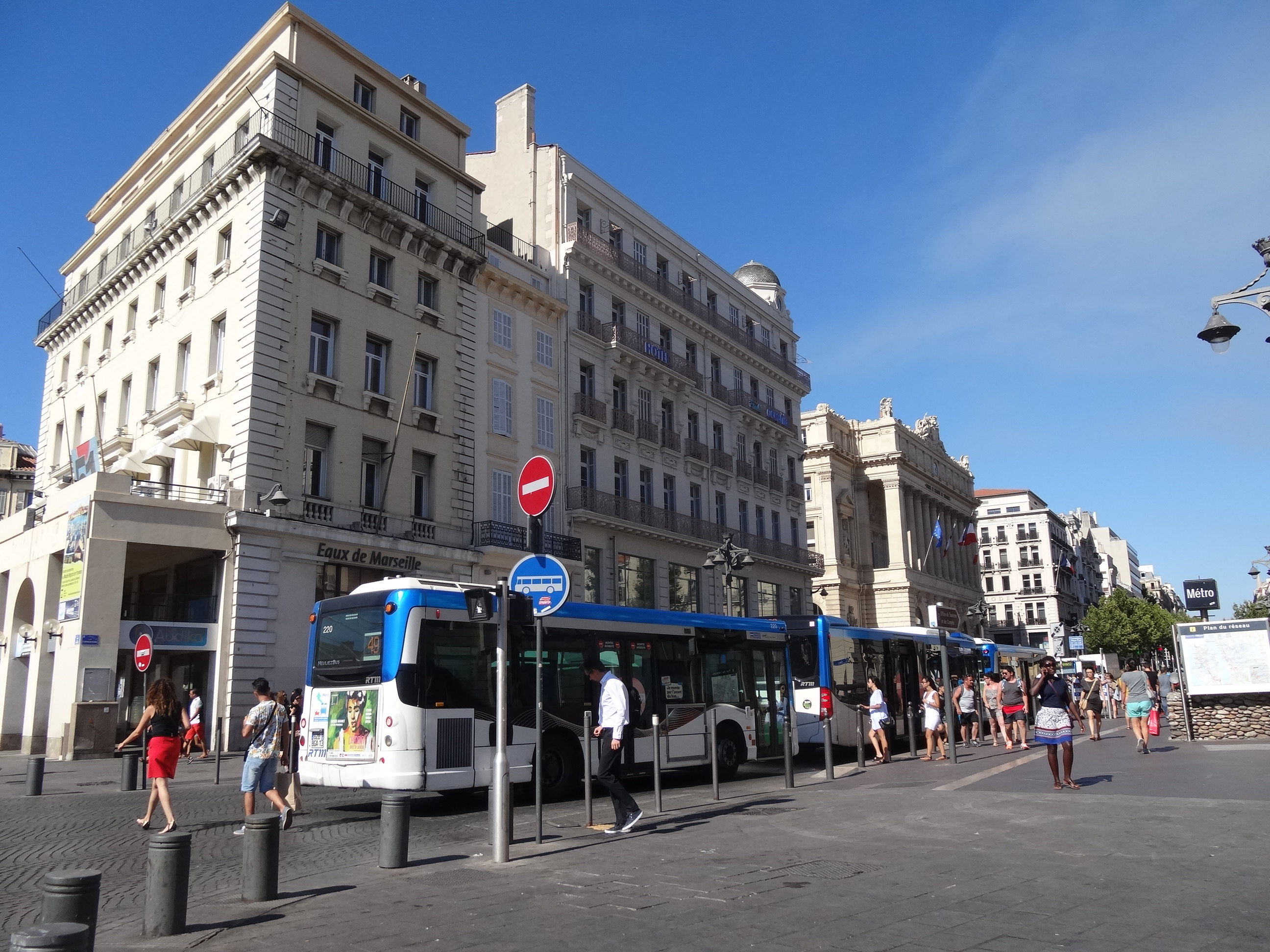 La Canebière, Marseille